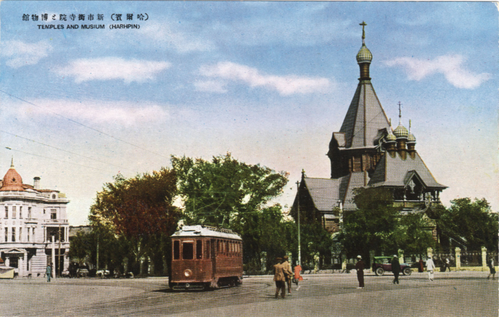 St. Nicolas Orthodox church in Harbin.